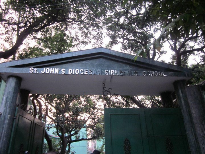 diocesan kolkata